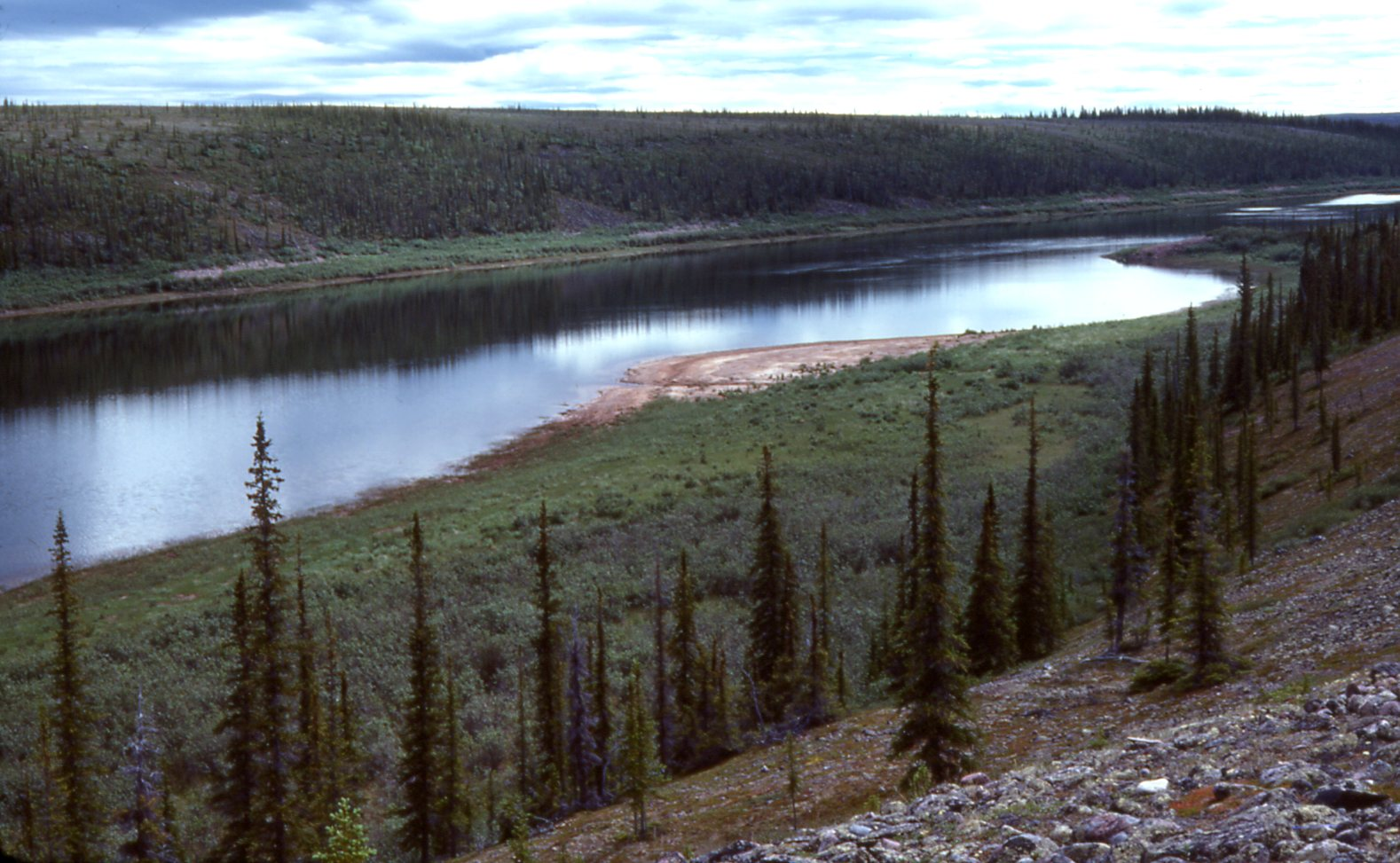 Photo of the Thelon River in the "oasis" section below Warden's Grove. Photo taken by Cameron Hayne (i.e. by me) User:Hayne